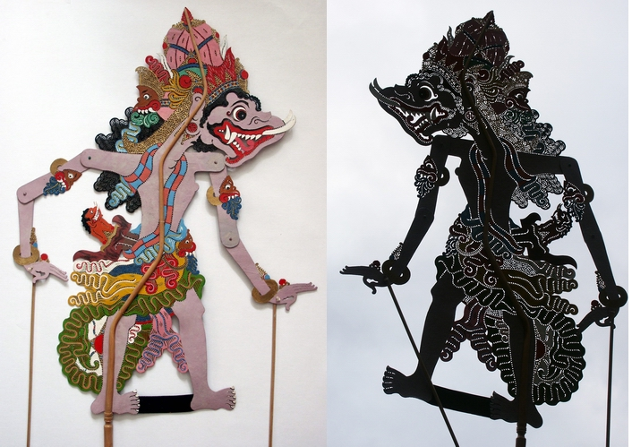 Raja Munda Wuktur, wayang kulit figure from the wayang shadow play Serat Menak Sasak